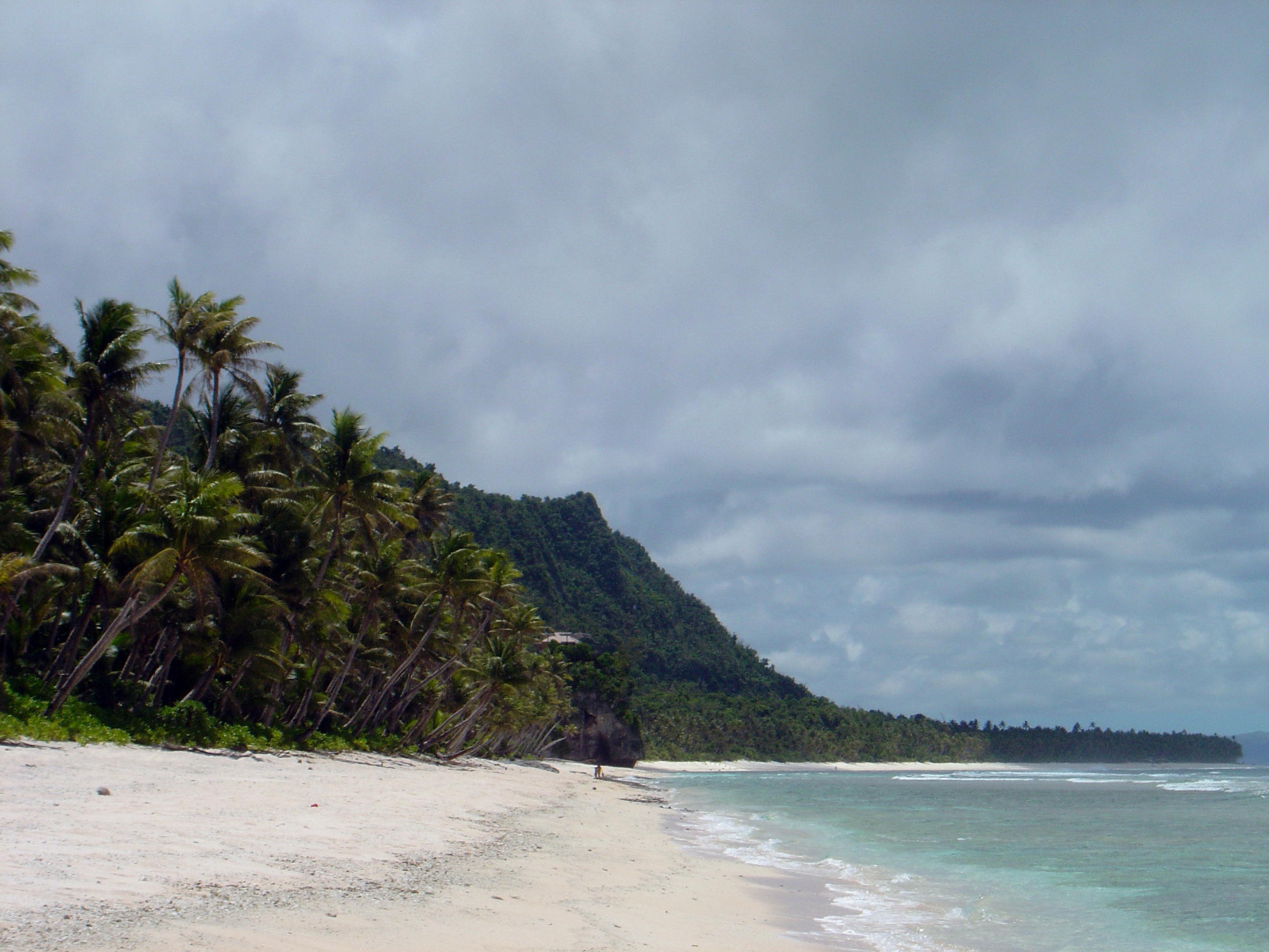 A magnificent white sand beach on Guam. Mariana Islands, Guam.